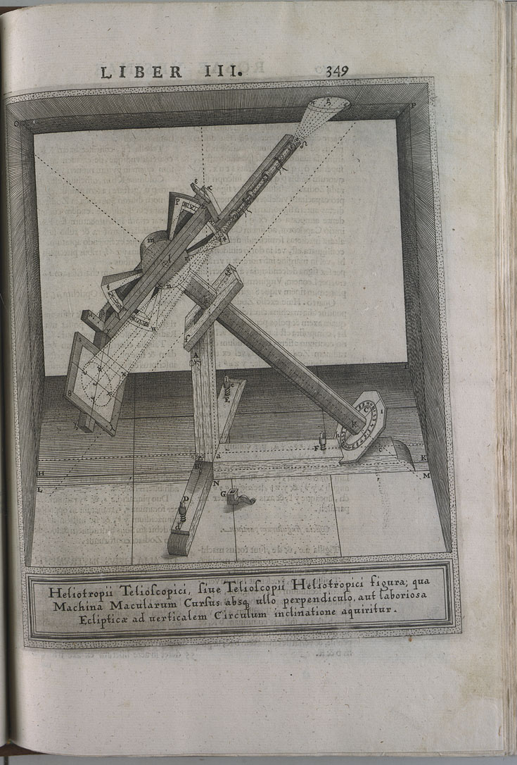 Helioscope